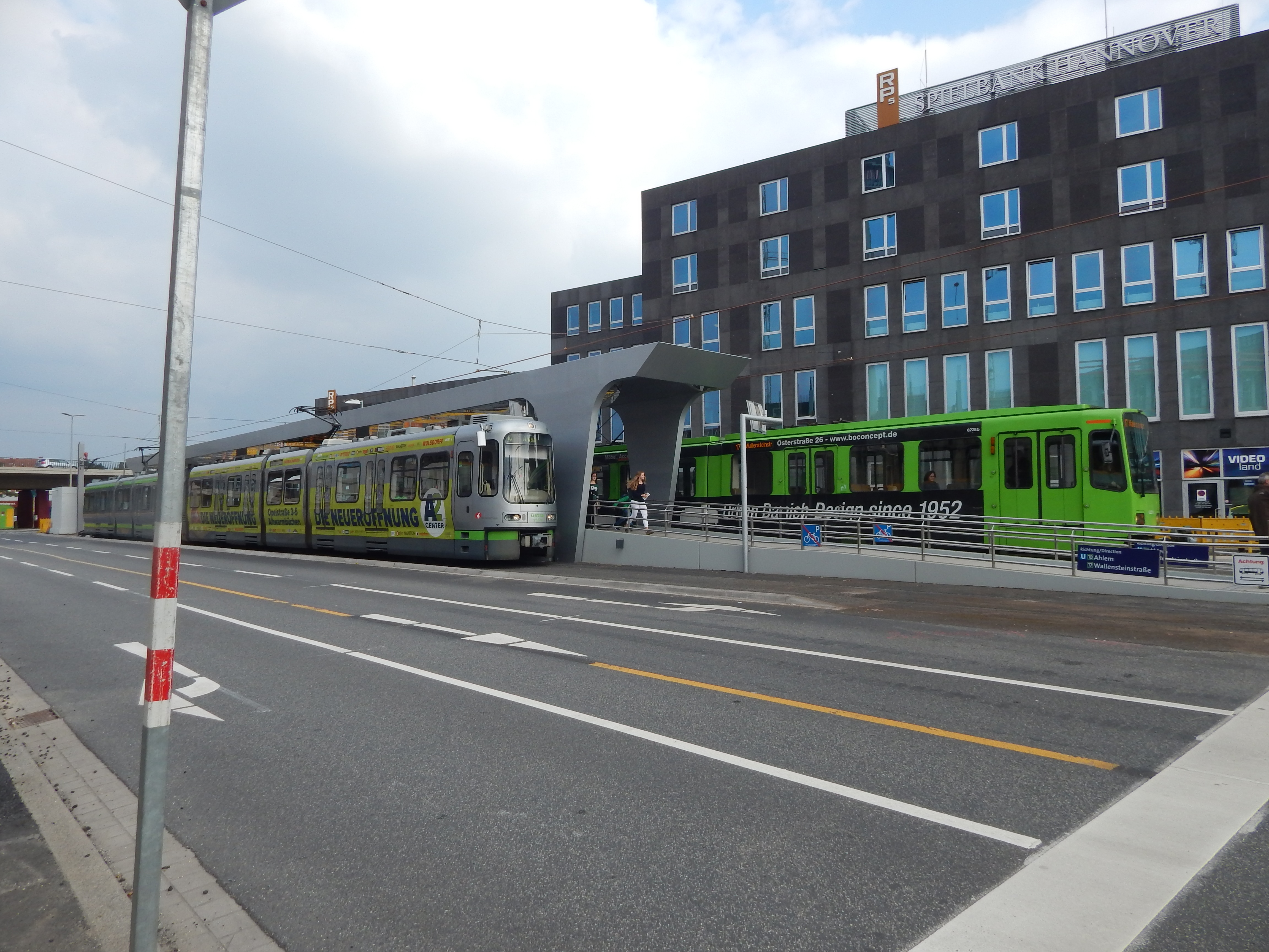 The new Tram Station at Hanover Central Railway Station a few days after opening